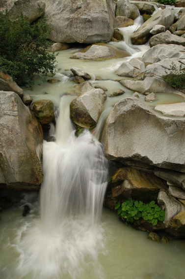 Young Aare, You can always get a copy in bigger solution at .